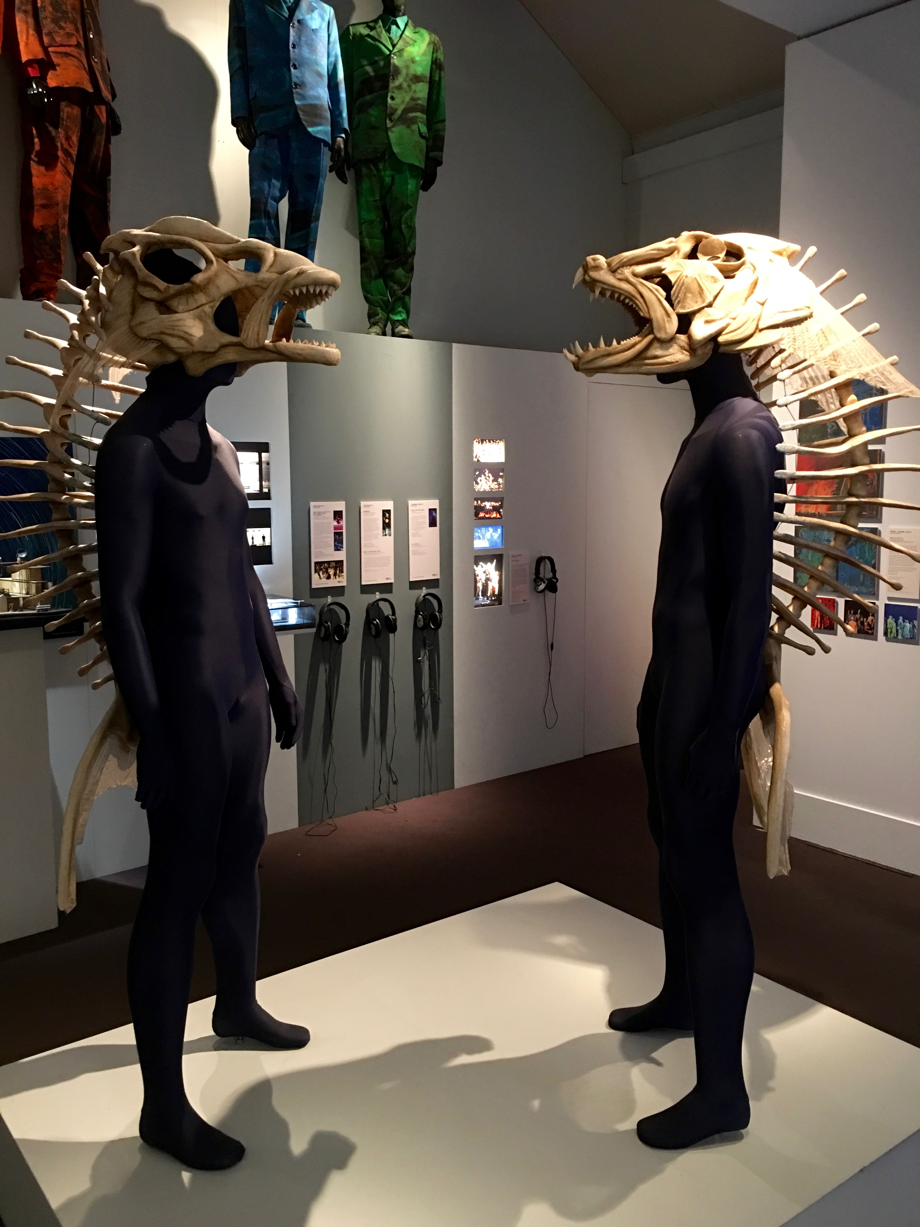 Fish head costumes from Kate Bush's Before the Dawn show